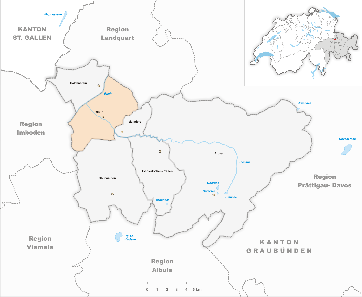 Municipality Chur